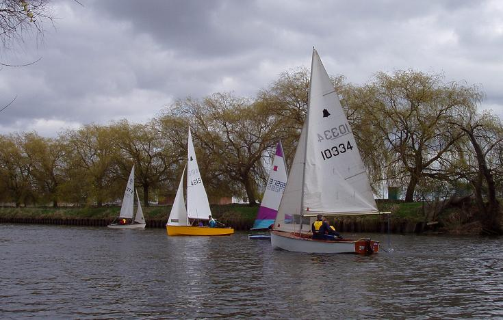 2 GP14s, a Topper and a Graduate.